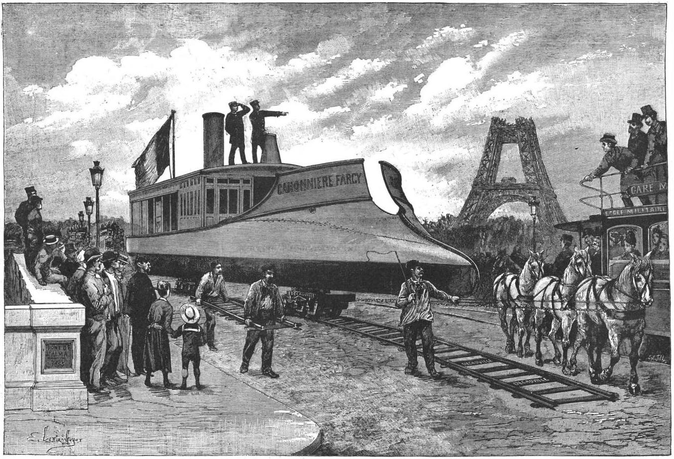 The French Gunboat Farcy en route (on a Decauville railway) for the Palace of Industry, Paris (on 25 July 1888). Published in L'Illustration 22 September 1888, page 182